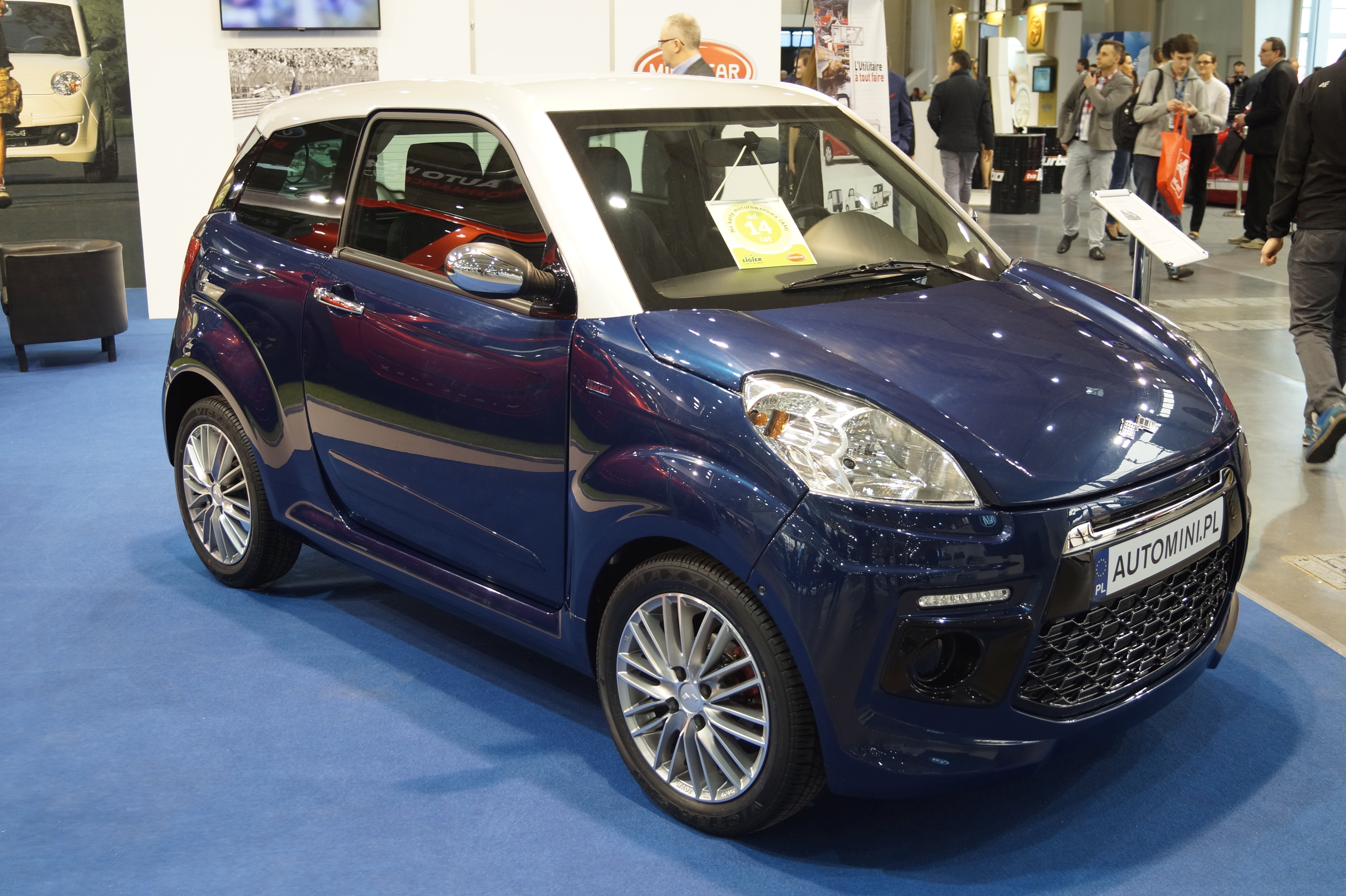 The making of this document was supported by Wikimedia Polska Association, within Wikigrant no. WG 2016-10. English | polski | +/− Ligier JS50 na Motor Show Poznań 2016